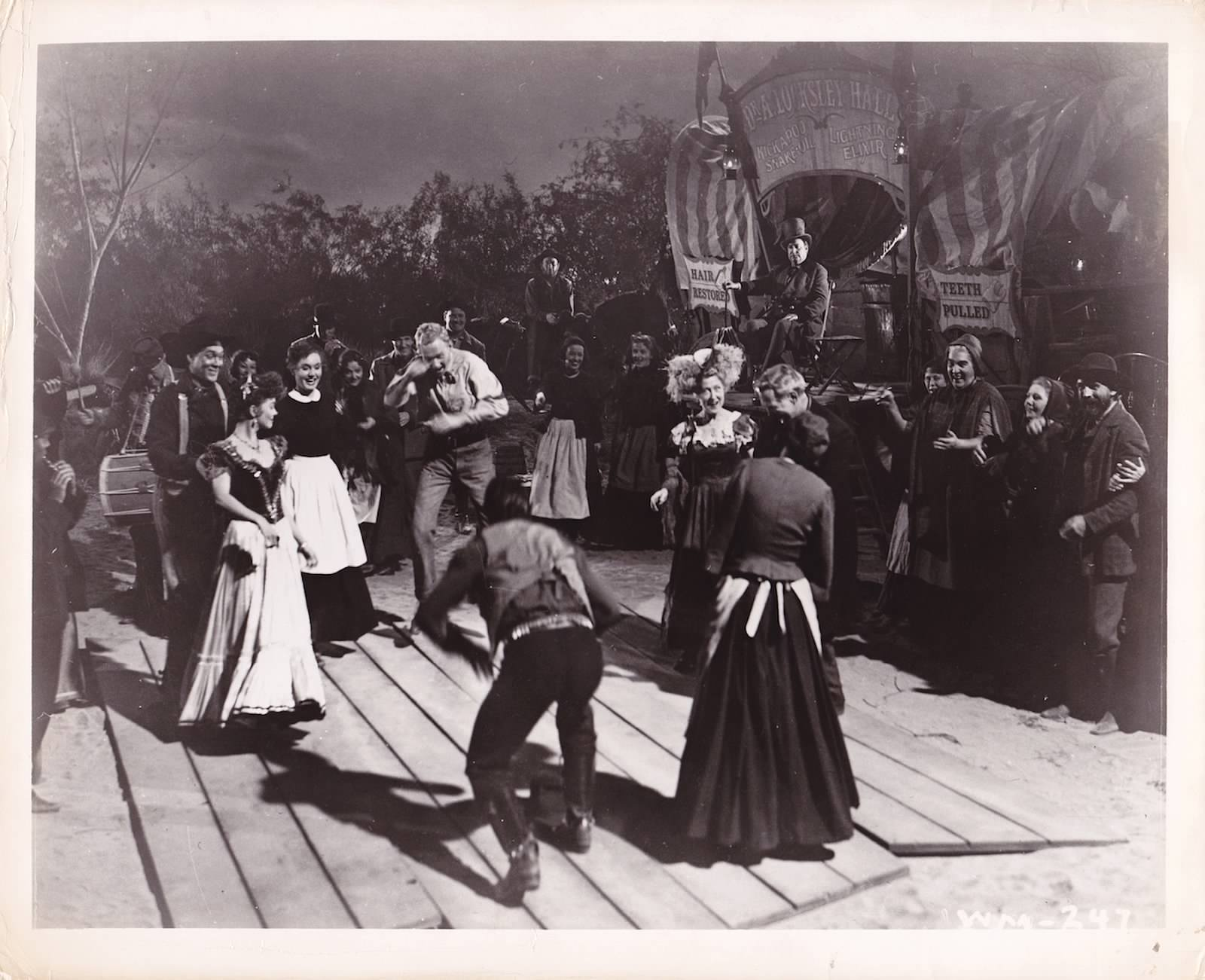 Publicity photograph for the film Wagon Master (1950) showing the Mormon square dance held to celebrate reaching the river after safe passage through the desert.